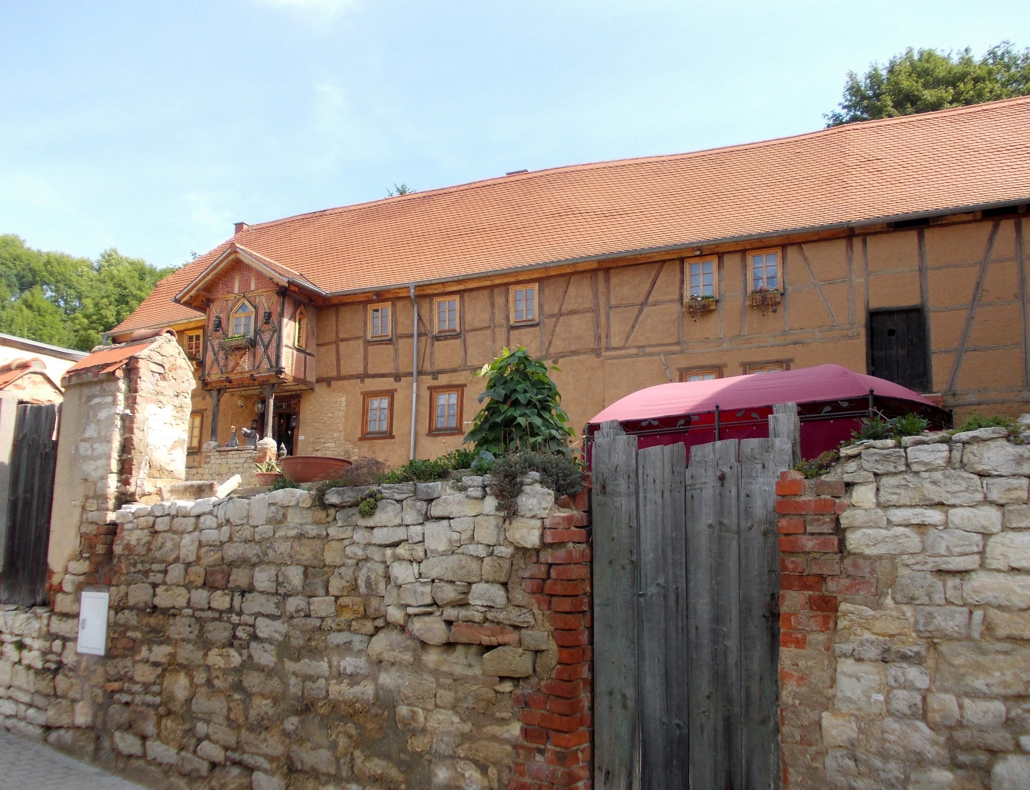 Executioner's House in Eckartsberga (district: Burgenlandkreis, Saxony-Anhalt)